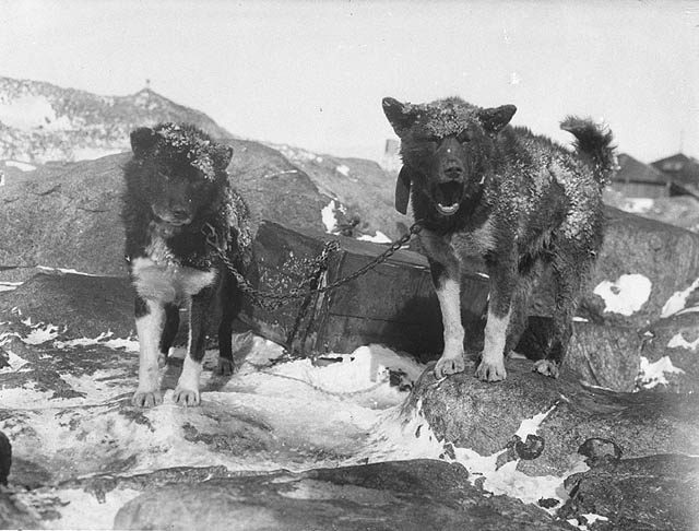 Format: Glass negative Notes: First Australasian Antarctic Expedition, 1911-1914 From the collections of the Mitchell Library, State Library of New South Wales Information about photographic collections of the State Library of New South Wales: .au/search/SimpleSearch.aspx Persistent url: .au/item/itemDetailPaged.aspx?itemID=60379